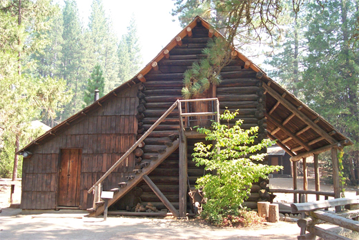 The Hogdon Homestead Cabin — within the Pioneer Yosemite History Center in Wawona, southern Yosemite National Park.